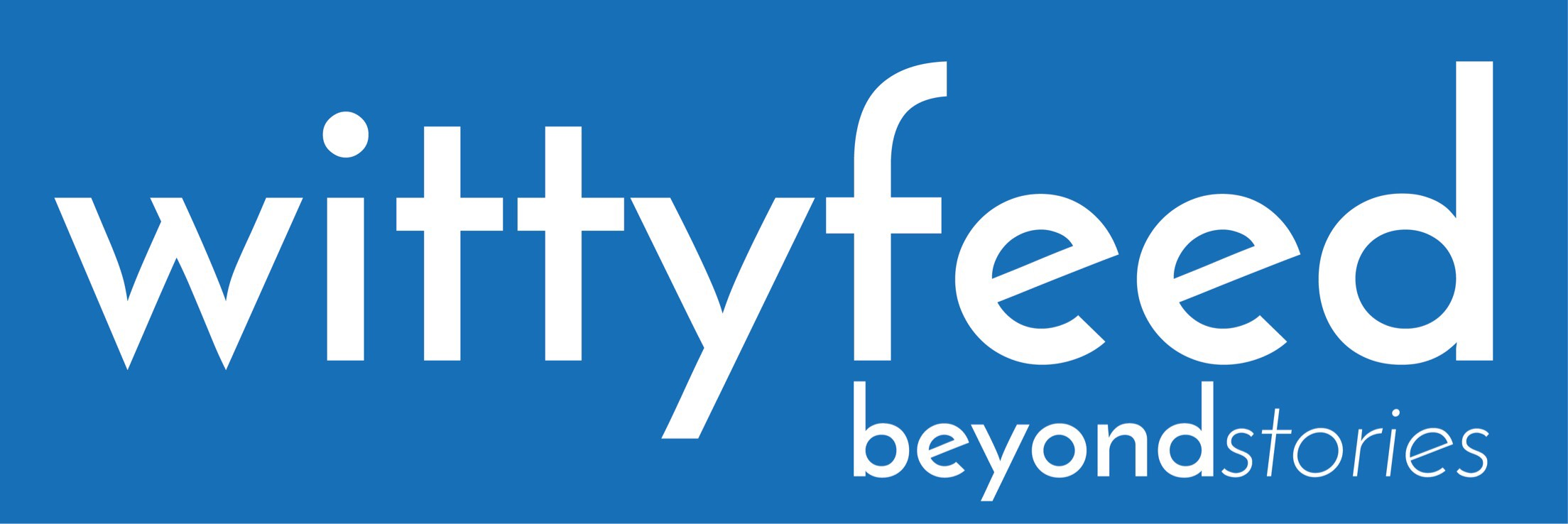 's new logo